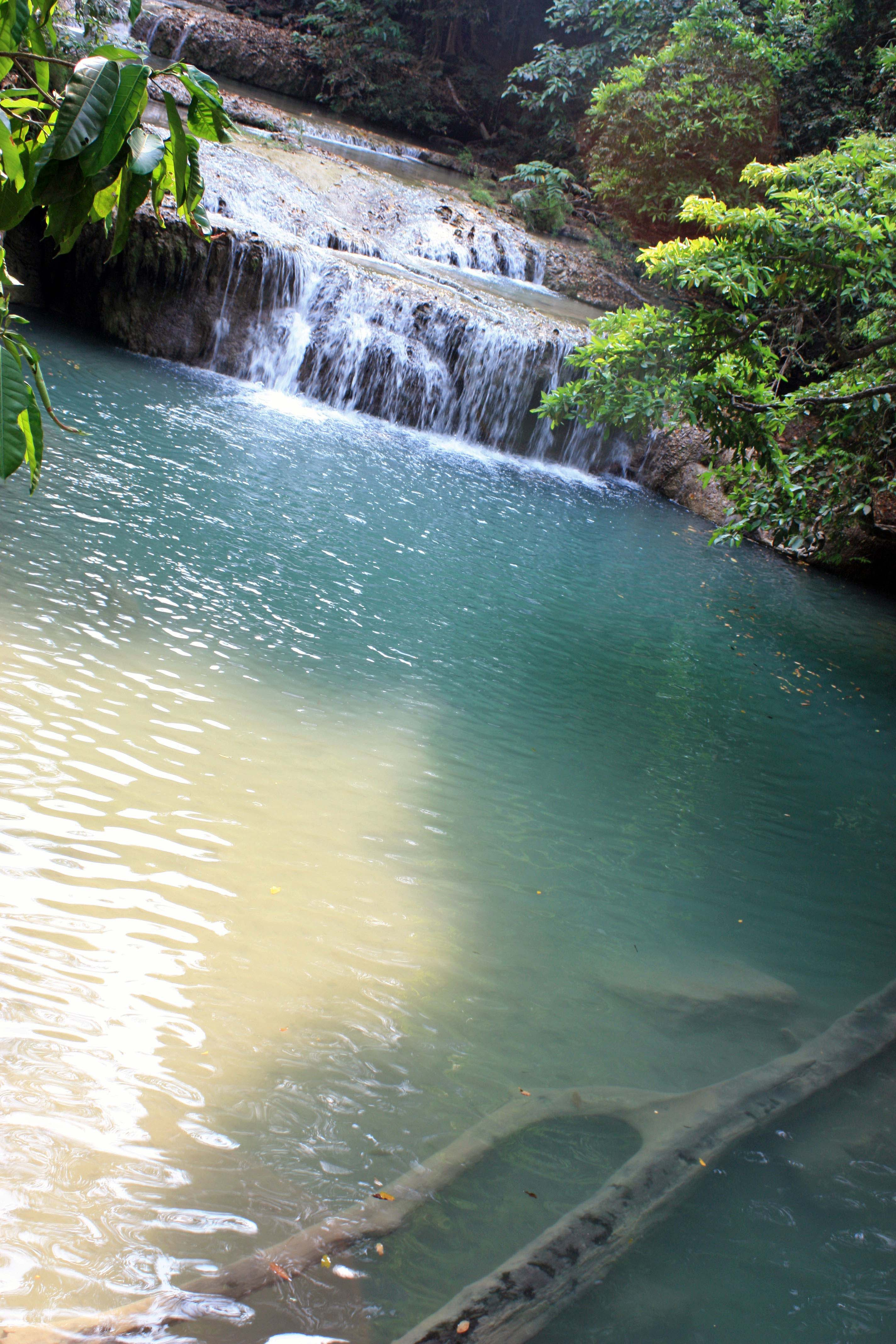 Level 3 of Erawan Waterfall, Erawan National Park, Kanchanaburi Province, Thailand.